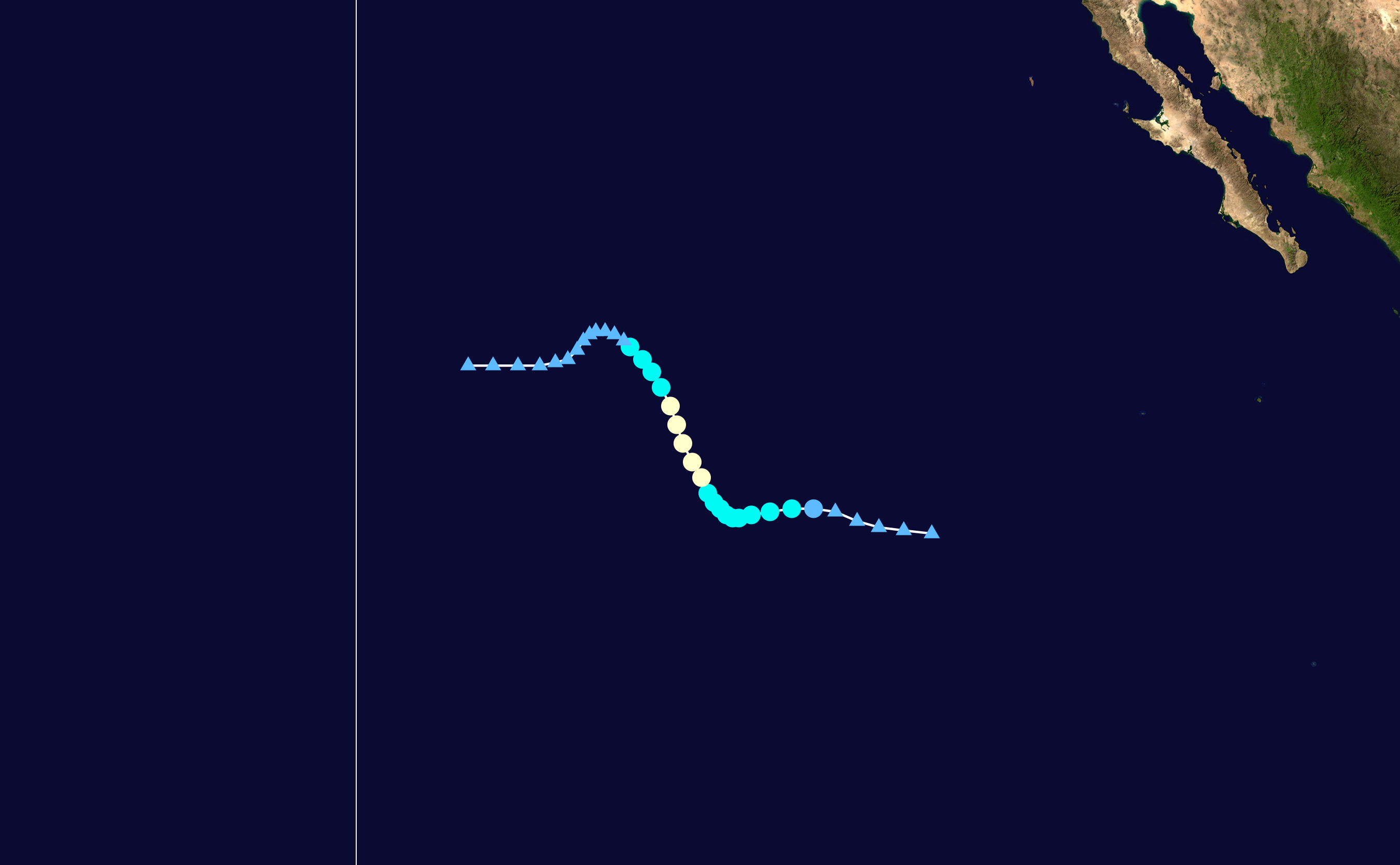 Track map of Hurricane Linda of the 2009 Pacific hurricane season. The points show the location of the storm at 6-hour intervals. The colour represents the storm's maximum sustained wind speeds as classified in the Saffir–Simpson scale (see below), and the shape of the data points represent the nature of the storm, according to the legend below. Saffir–Simpson scale Tropical depression≤38 mph≤62 km/h Category 3111–129 mph178–208 km/h Tropical storm39–73 mph63–118 km/h Category 4130–156 mph209–251 km/h Category 174–95 mph119–153 km/h Category 5≥157 mph≥252 km/h Category 296–110 mph154–177 km/h Unknown Storm type Tropical cyclone Subtropical cyclone Extratropical cyclone / Remnant low / Tropical disturbance / Monsoon depression